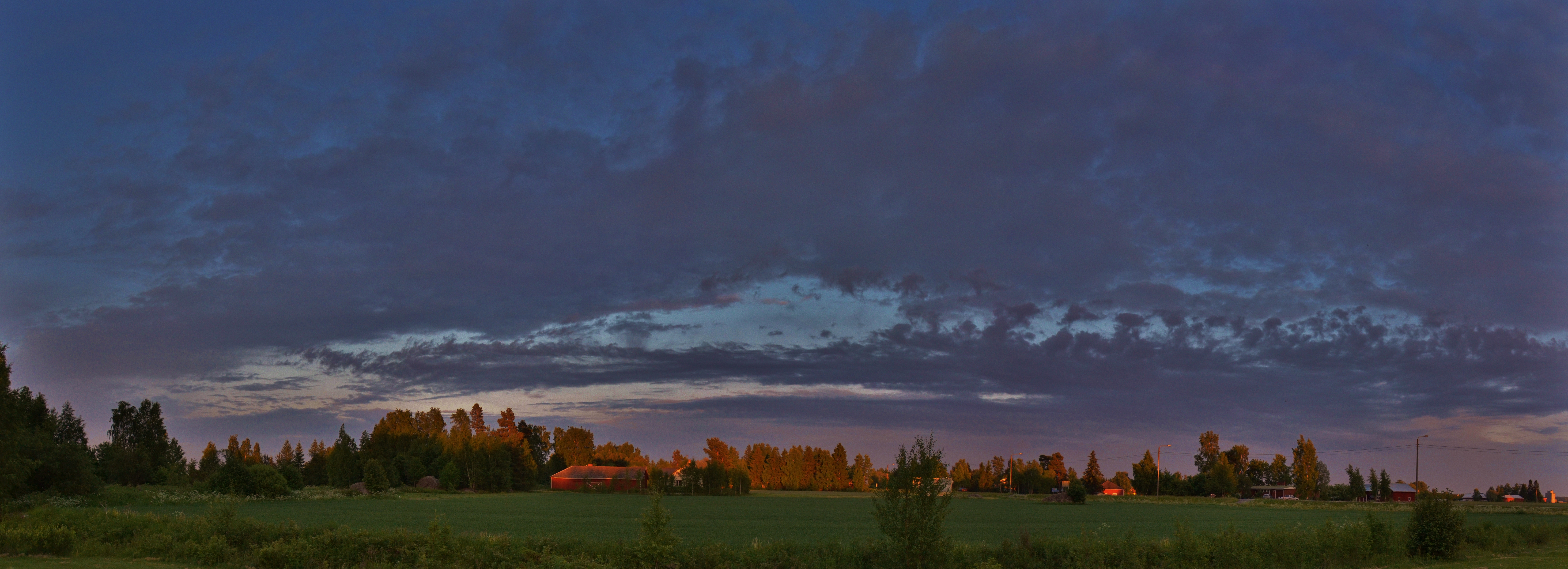 Laihia countryside